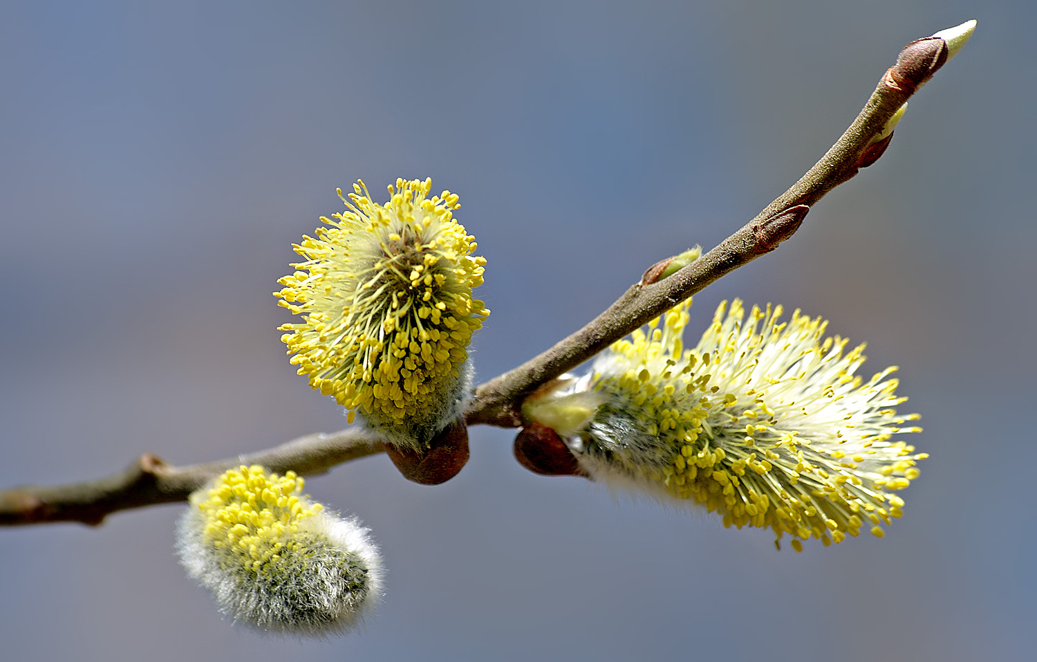 This image shows three male Willow (Salix) catkins.